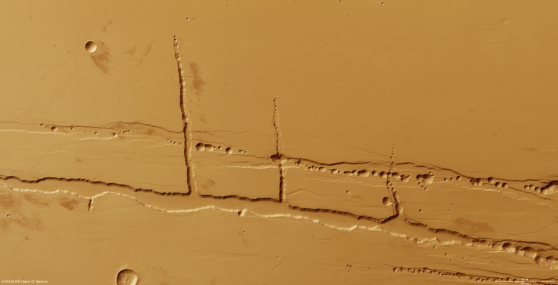 Portion of Tractus Catena imaged by the HRSC instrument aboard Mars Express.